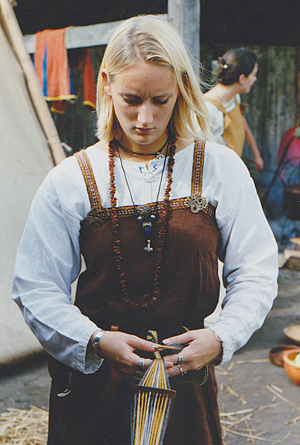 Dressed viking woman at weaving